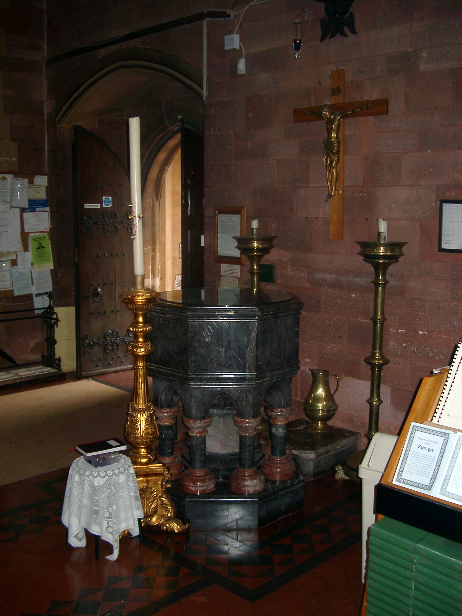 Baptismal font in All Saints' parish church, Torquay, Devon. Said by a local priest to be that in which Agatha Christie was baptisted